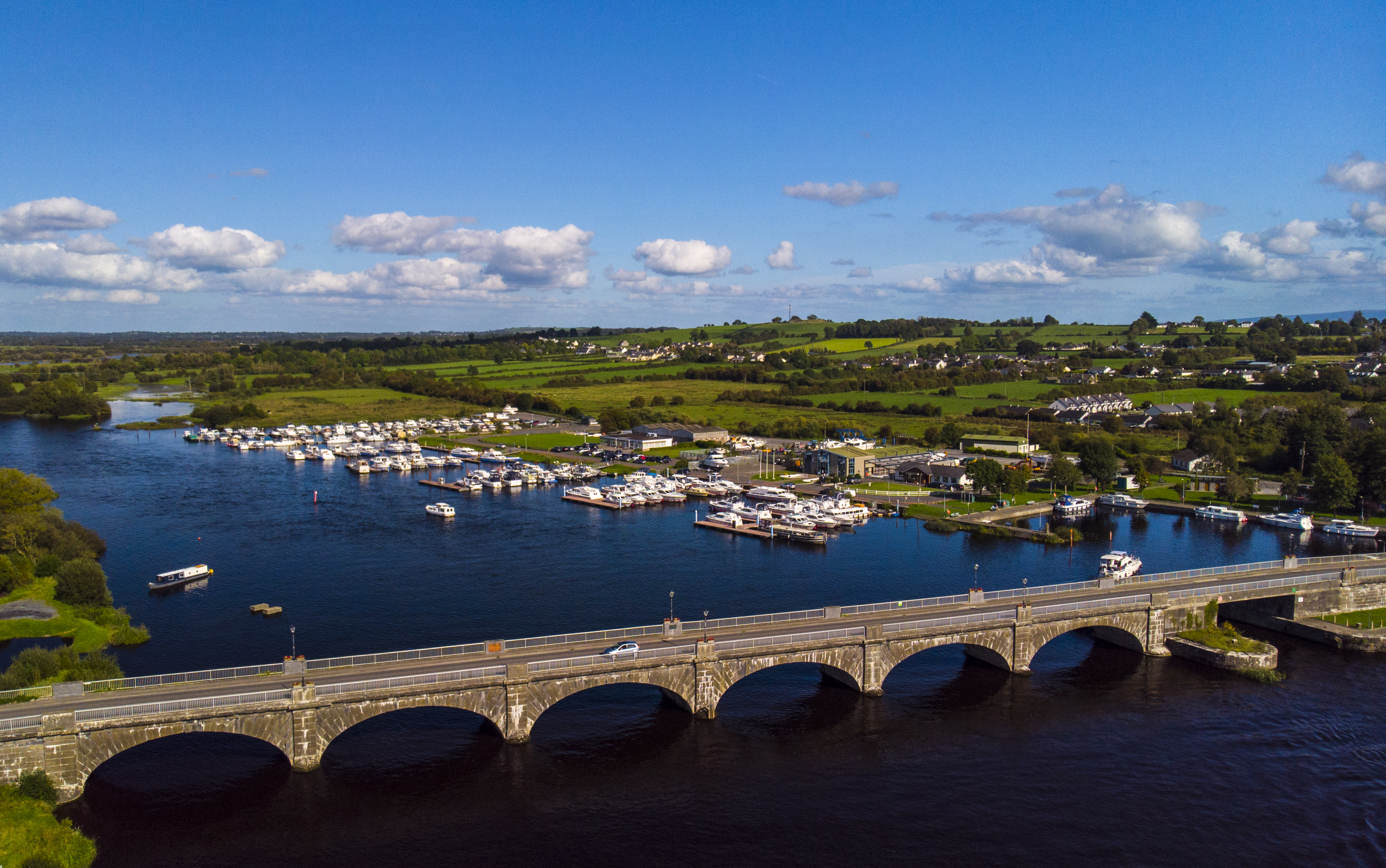 Banagher Bridge crosses the River Shannon. The Shannon here is the Offaly-Galway border.